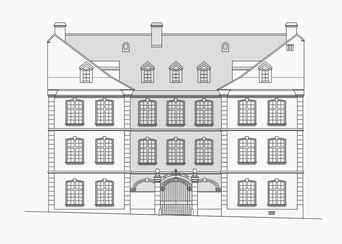 Elevation of the facade on the Rheingasse of the Palais Mayenfisch or Marschallhaus in Kaiserstuhl, Aargau, built in 1765.